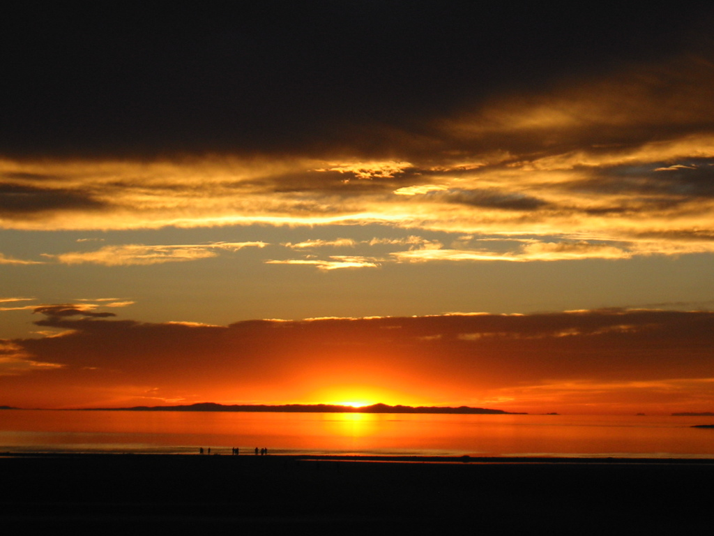 Sunset from the western shore of Antelope Island State Park, Great Salt Lake, Utah, United States.